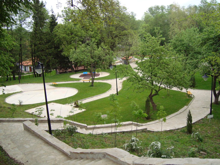 Park "Rila" Dupnitsa